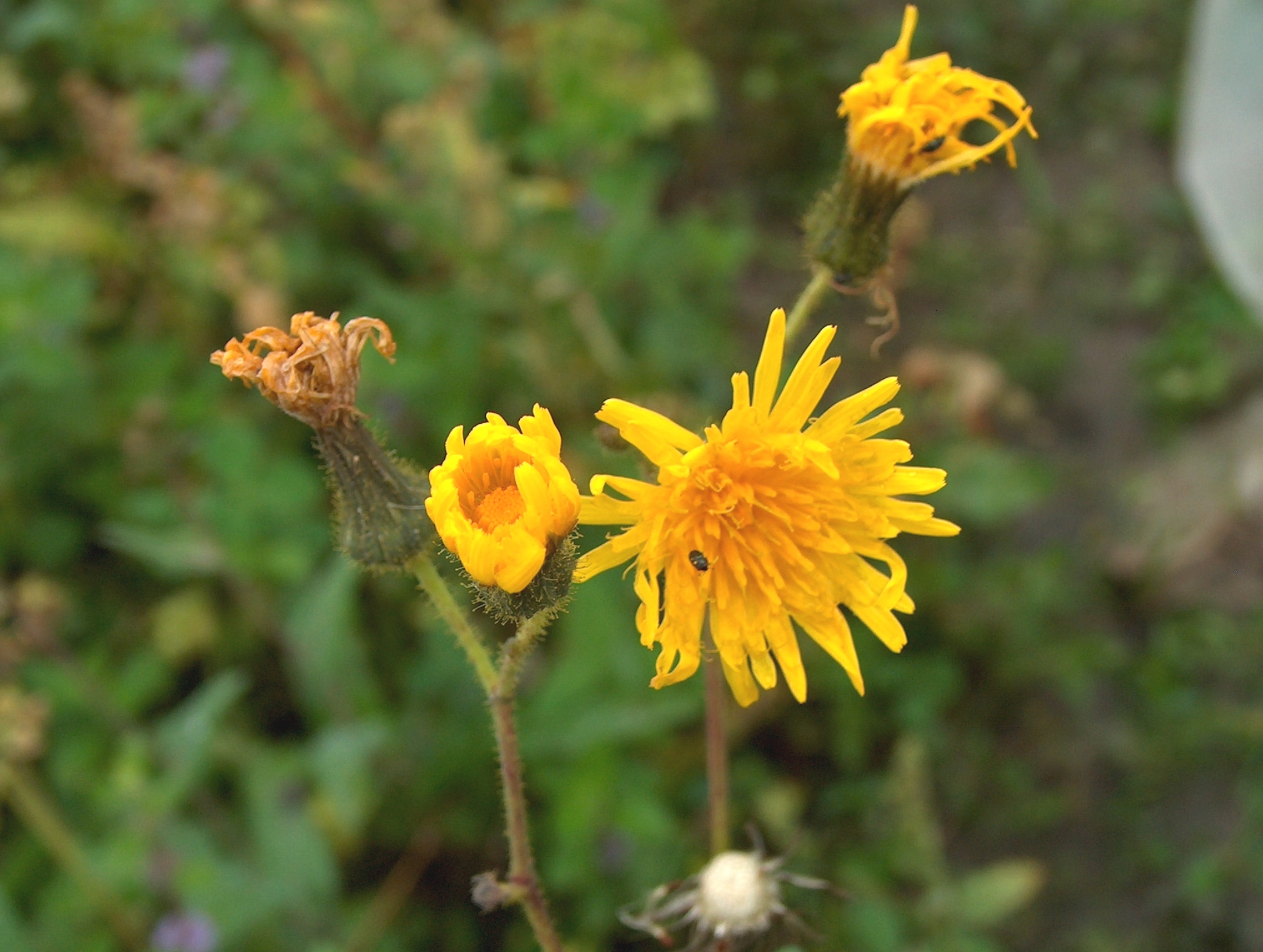 Sonchus arvensis, Field Sow Thistle - Flowers - Kerava, Finland